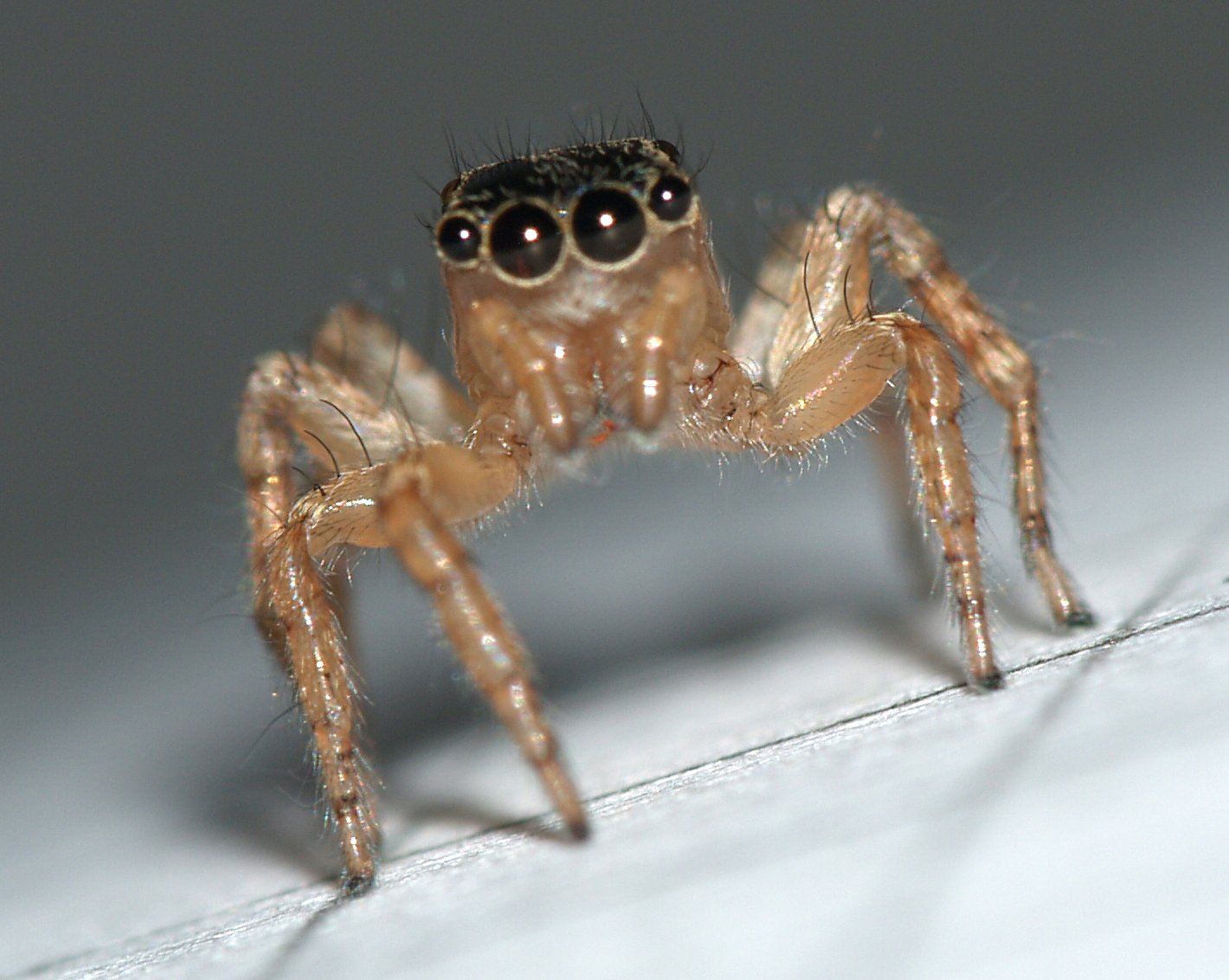 female Saitis barbipes from Menton, French Riviera (43°46′32″N 07°30′02″E / 43.77556°N 7.50056°E). One square on paper has a side length of 5 mm.